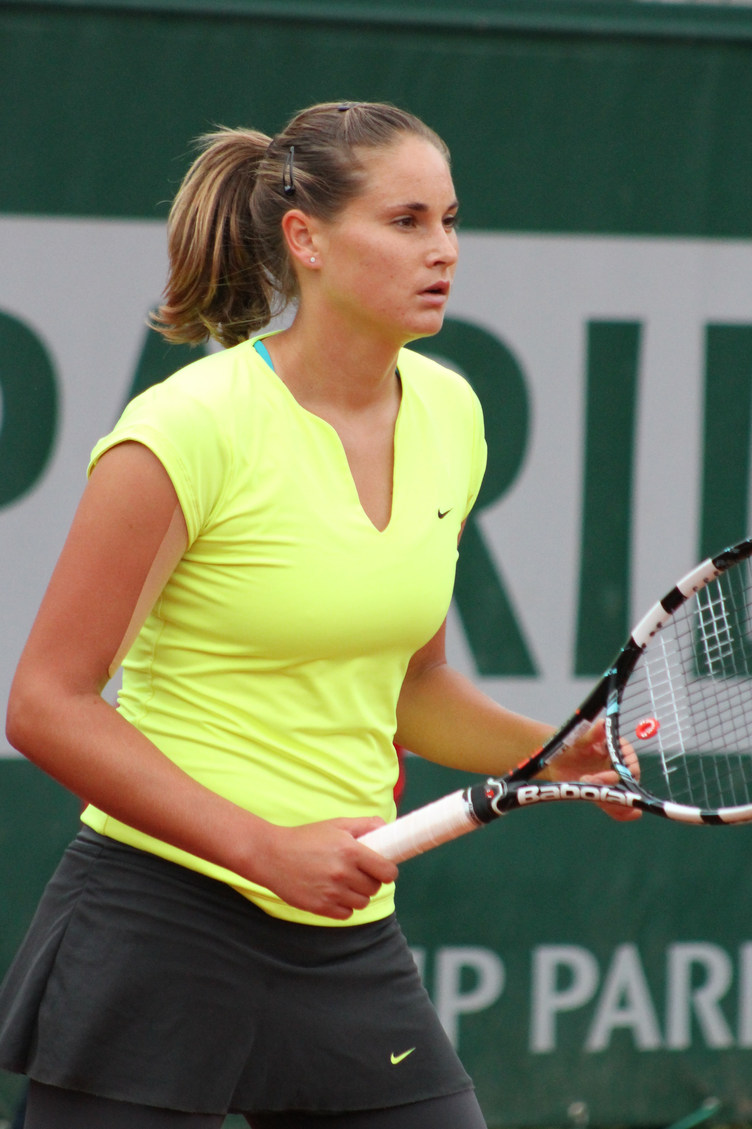 Alexandra Panova playing at Roland Garros 2013